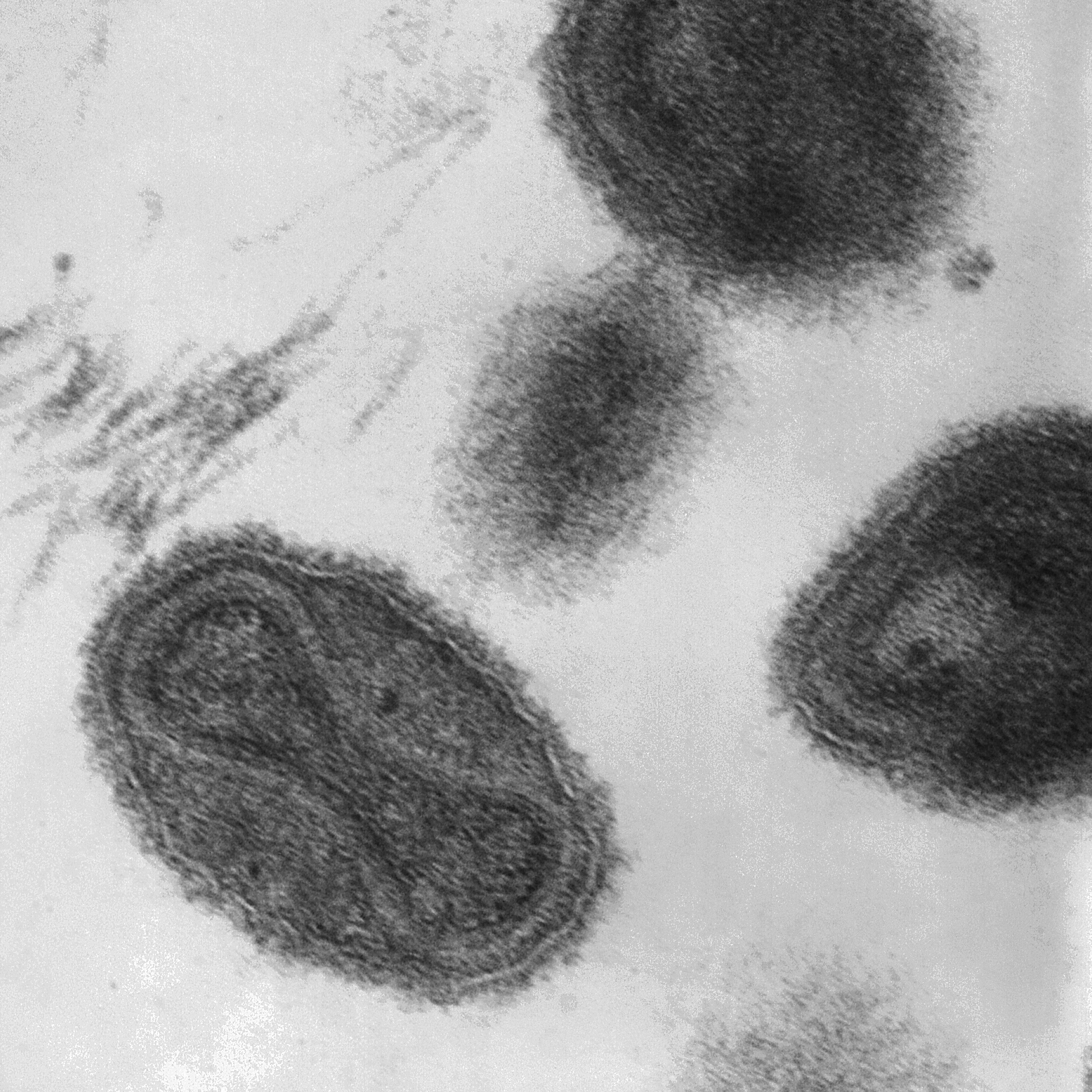 cropped version of File:Smallpox_virus_virions_TEM_PHIL_1849.JPG